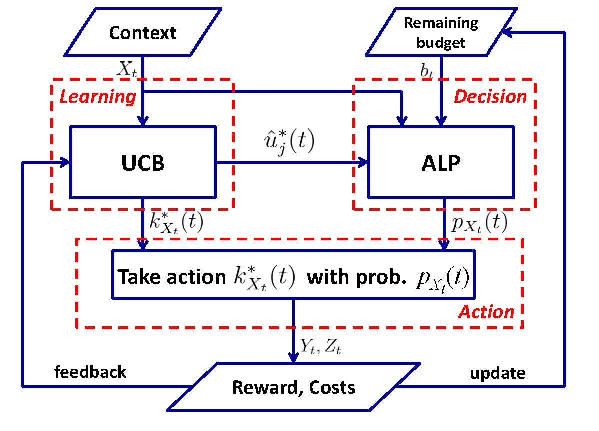 Framework of UCB-ALP, an algorithm with logarithmic/sublinear regret for constrained contextual bandits.